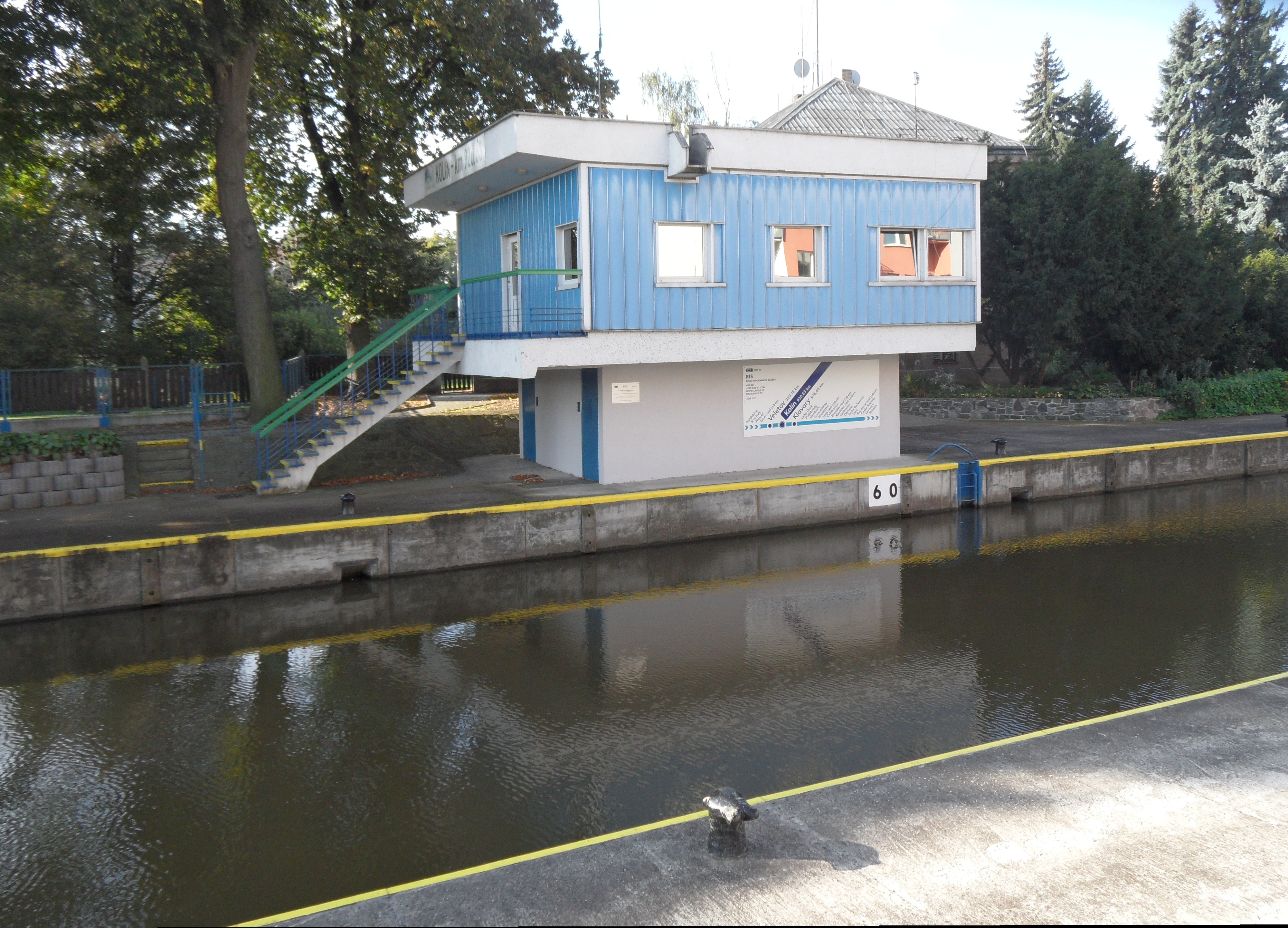 Lock Kolín A. Building of the Lock from the Right Bank, Kolín District, the Czech Republic.